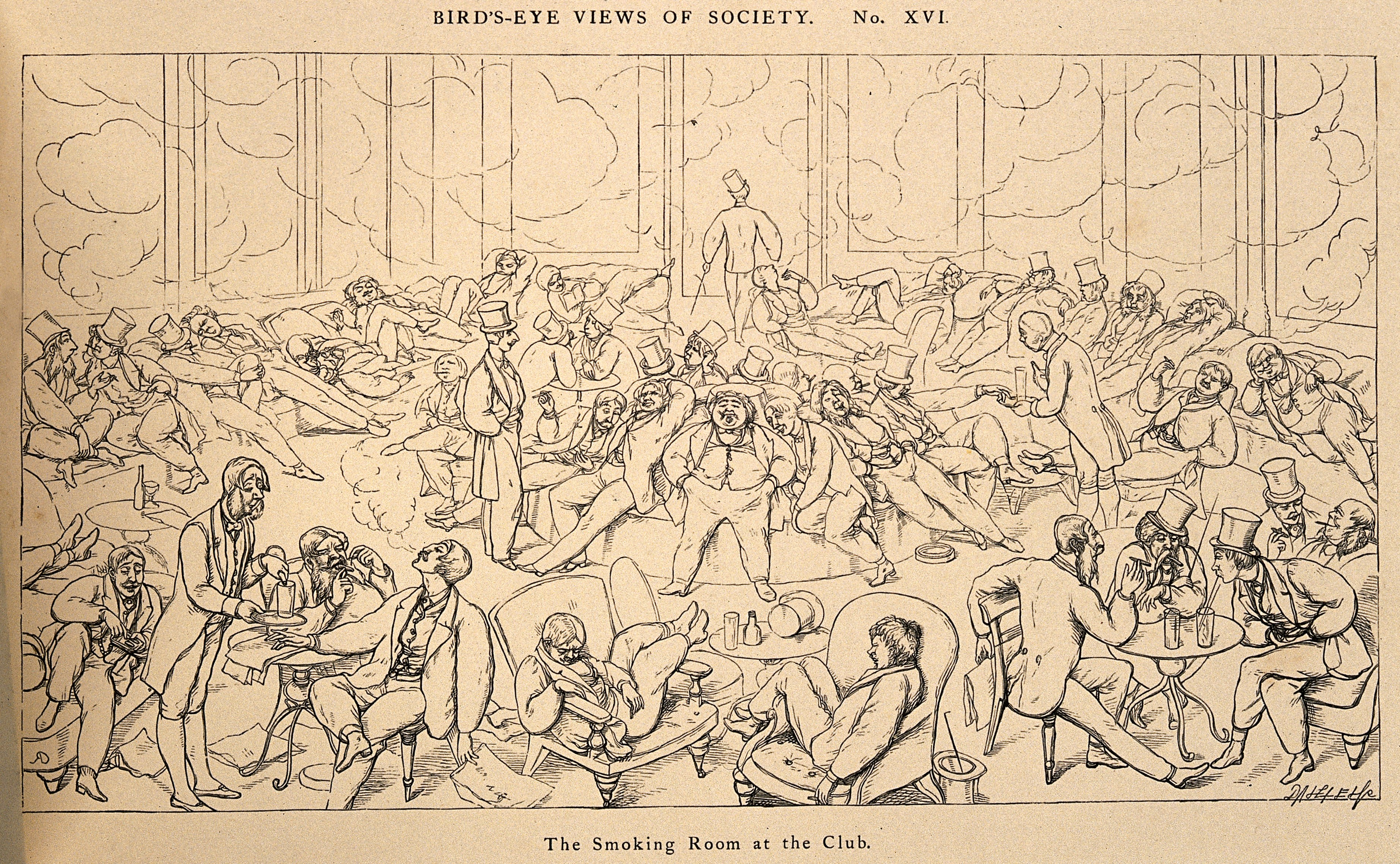 The smoking room in a gentlemen's club. Reproduction of a wood engraving after Dalziel after R. Doyle. Iconographic Collections Keywords: bird's-eye views; Caricatures; Richard Doyle; Dalziel.; dalziel; Social Participation; clubs; upper classes; Smoking; manners and customs